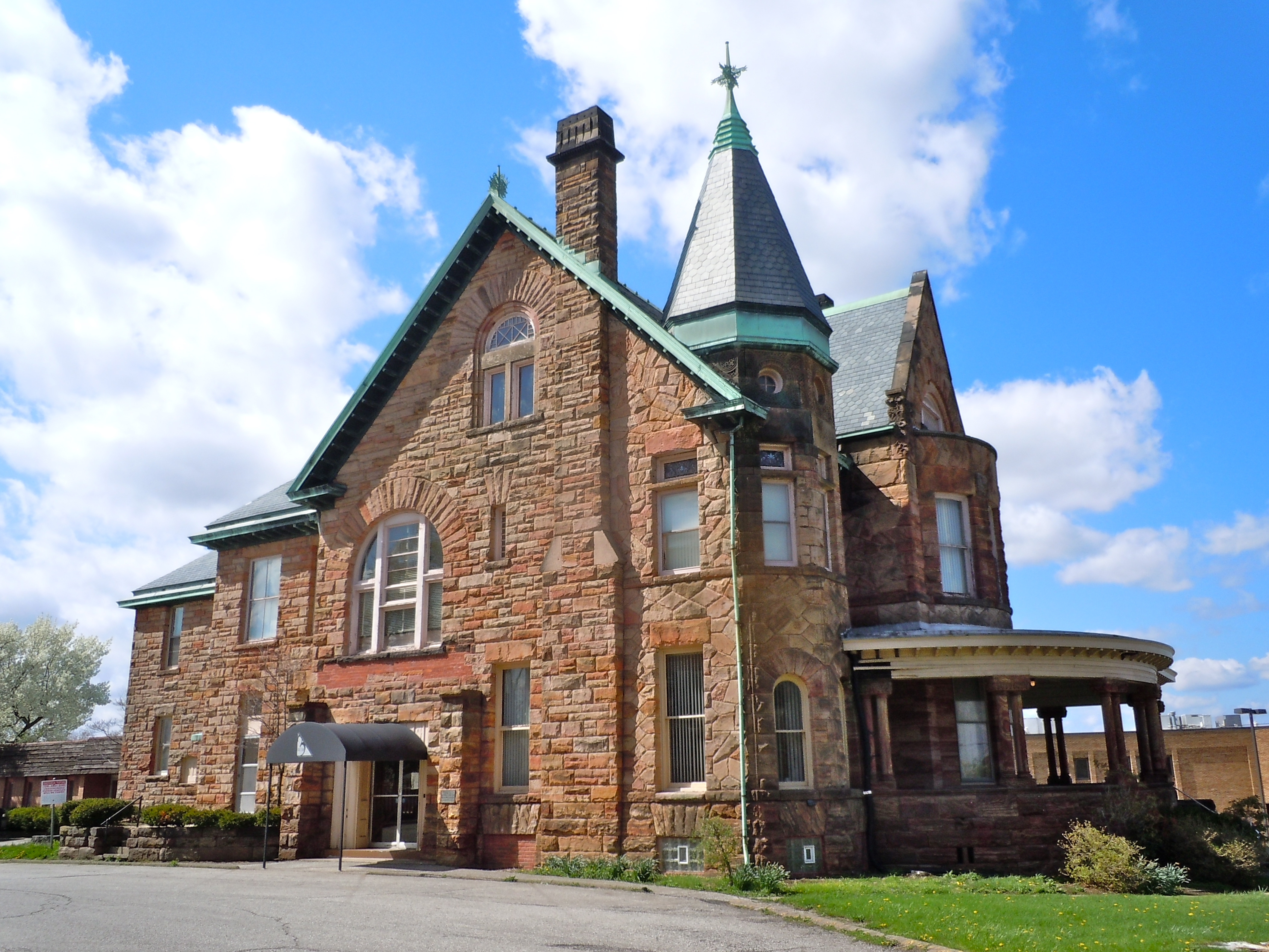 Martin Bushnell House on the NRHP since April 26, 1974. At 34 Sturges Ave., Mansfield, Richland county, Ohio.